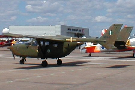 Cessna O-2 (“Push-Pull”) in colors of the Pakistan Air force